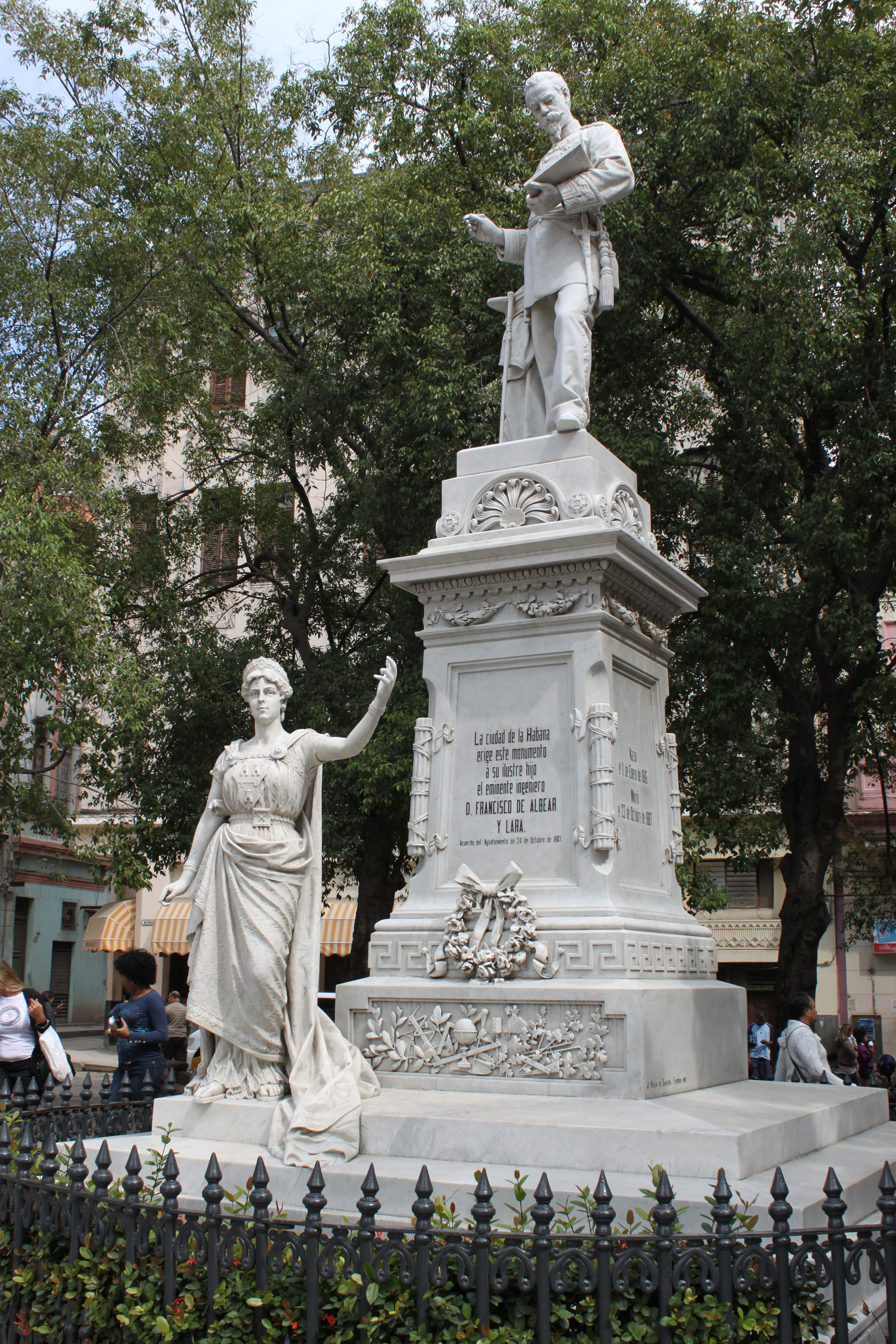 Statue of Francisco de Albear y Fernández de Lara in Havana, Cuba ; sculptor is Jose Villata Saavedra